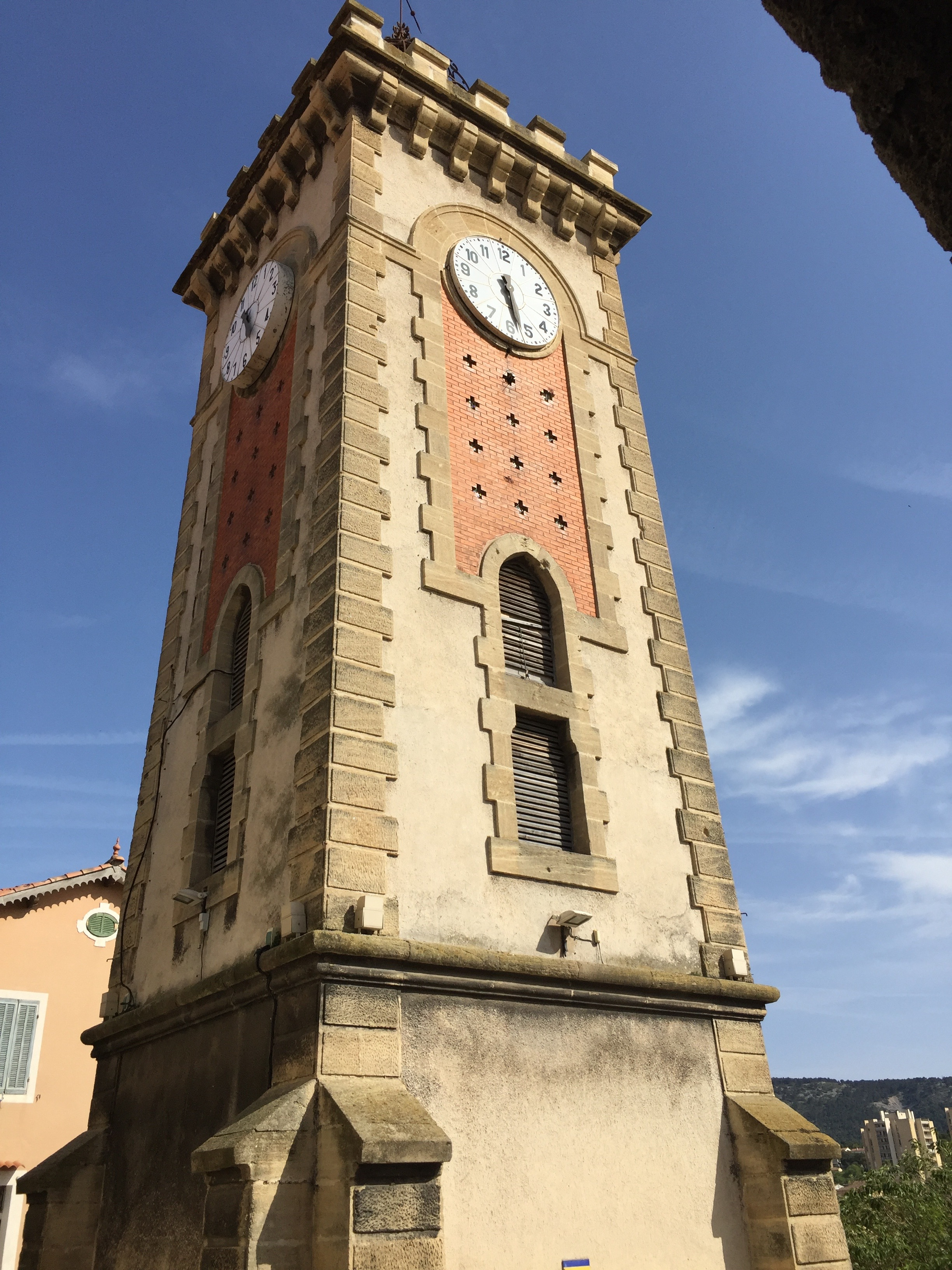 The clock tower in Aubagne city center